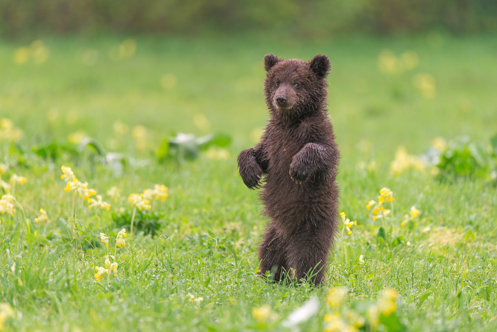 Teddy bear in the national park «Bashkiria», Bashkortostan, Russia.